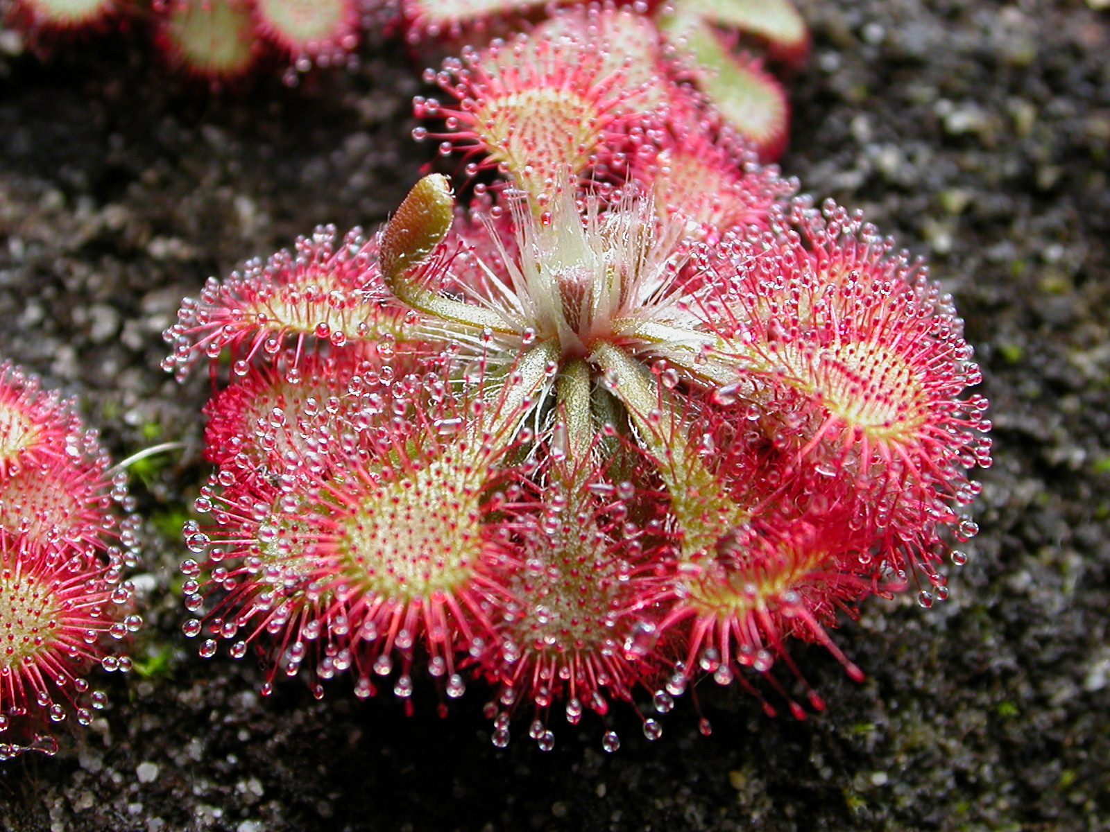 The author licensed this picture in a letter to the uploader as follows: "Ich lizensiere die Bilder [..] unter der GNU-FDL." (Translation: "I license the pictures [..] as GNU-FDL.") Drosera tokaiensis habit (Location type from Kansai)